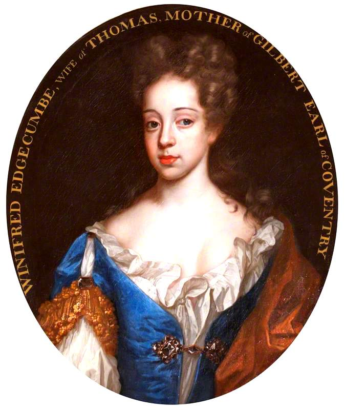 Lady Anne Somerset (1673–1763), Viscountess Deerhurst, Later Countess of Coventry